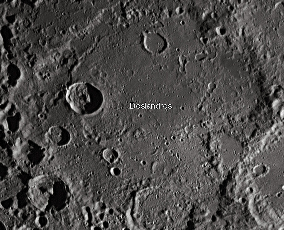 Deslandres lunar crater as seen from Earth with satellite craters labeled